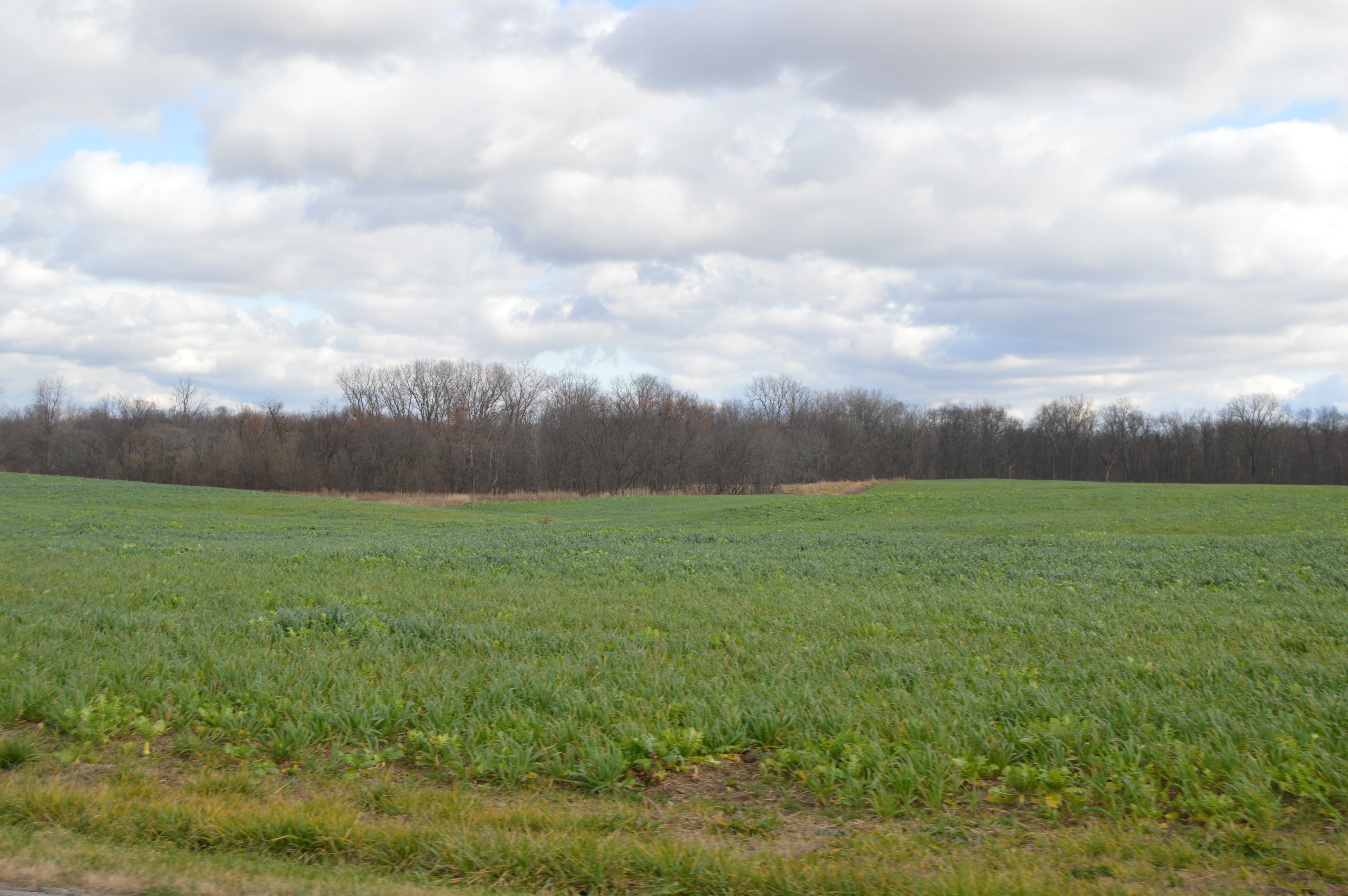 Fields on the eastern side of Road 7-50 immediately north of the bend where it becomes Road F-50, south of Blakeslee, in St. Joseph Township, Williams County, Ohio, United States.